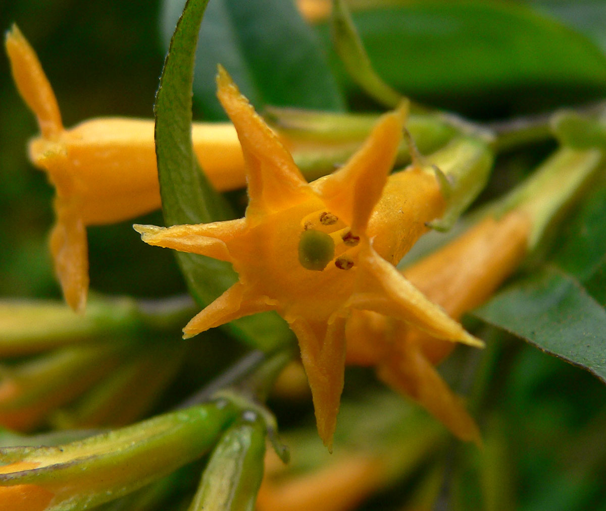 Photo of Cestrum aurantiacum at the San Francisco Botanical Garden